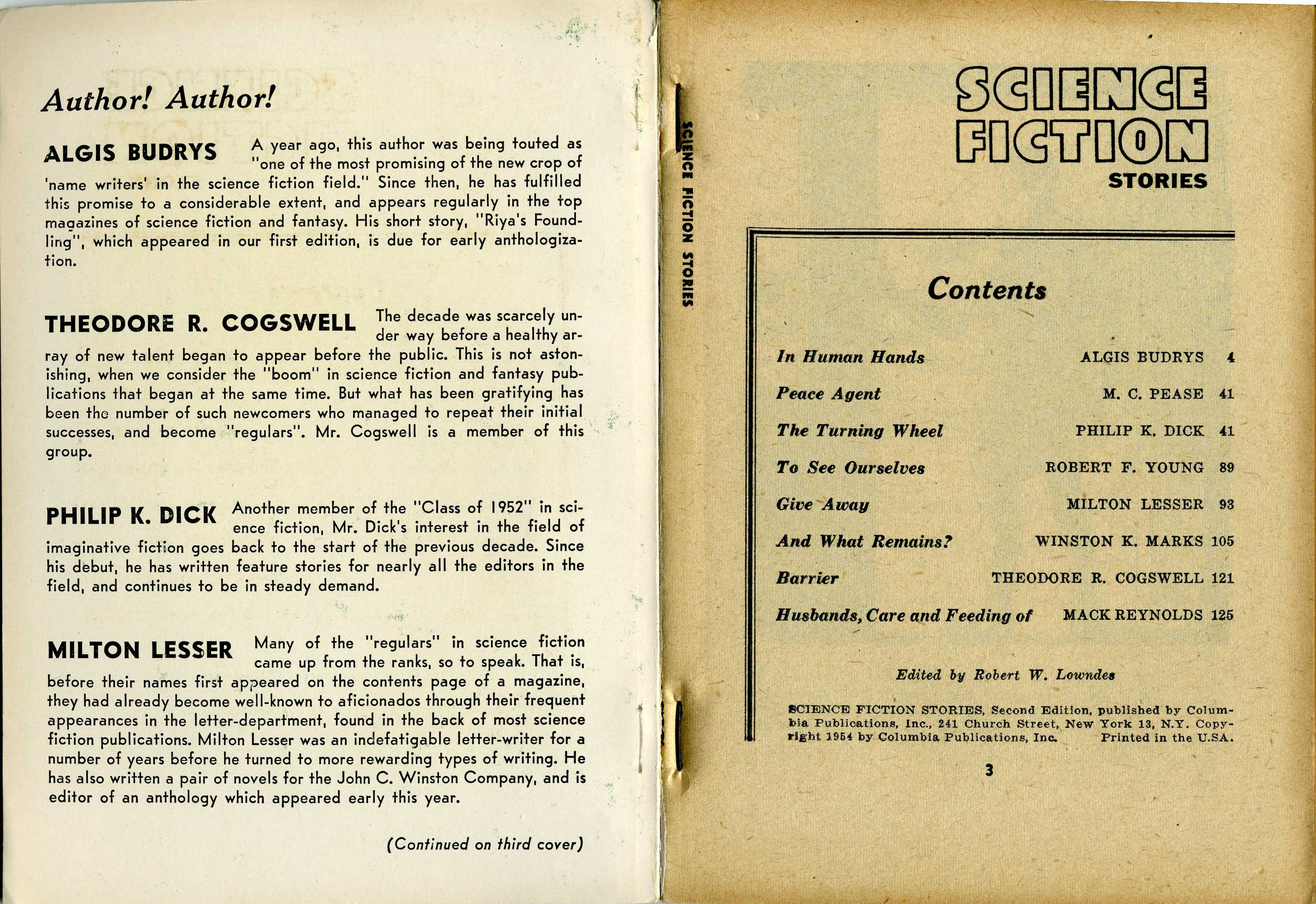 Inside Front Cover and Table Of Contents, Science Fiction Stories No. 2, 1954. Verifies publication of "The Turning Wheel" by Philip K. Dick in this issue of this magazine. Illustrates publication of stories by many notable SF authors in context of publishing era and presentation to readers of era. Inside front cover has profiles of Algis Budrys, Theodore R. Cogswell, Philip K. Dick and Milton Lesser (best known by pen name, Steven Marlowe) who were all still new authors at the time. This was the second of two issues published in 1954 under the title Science Fiction Stories by Columbia Publishing which was experimenting with a digest size magazine instead of the larger pulp size. Both issues were confusingly copyrighted as Science Fiction Quarterly which was a different Columbia Publishing SF magazine.